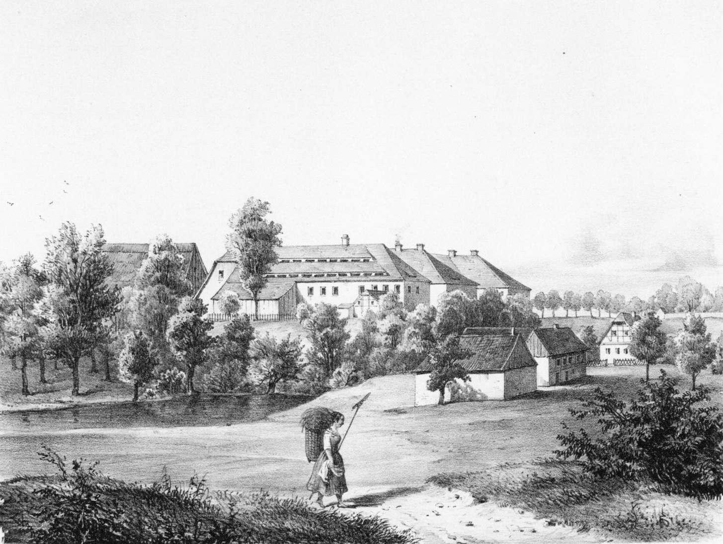 manor Freibergsdorf in the Erzgebirge